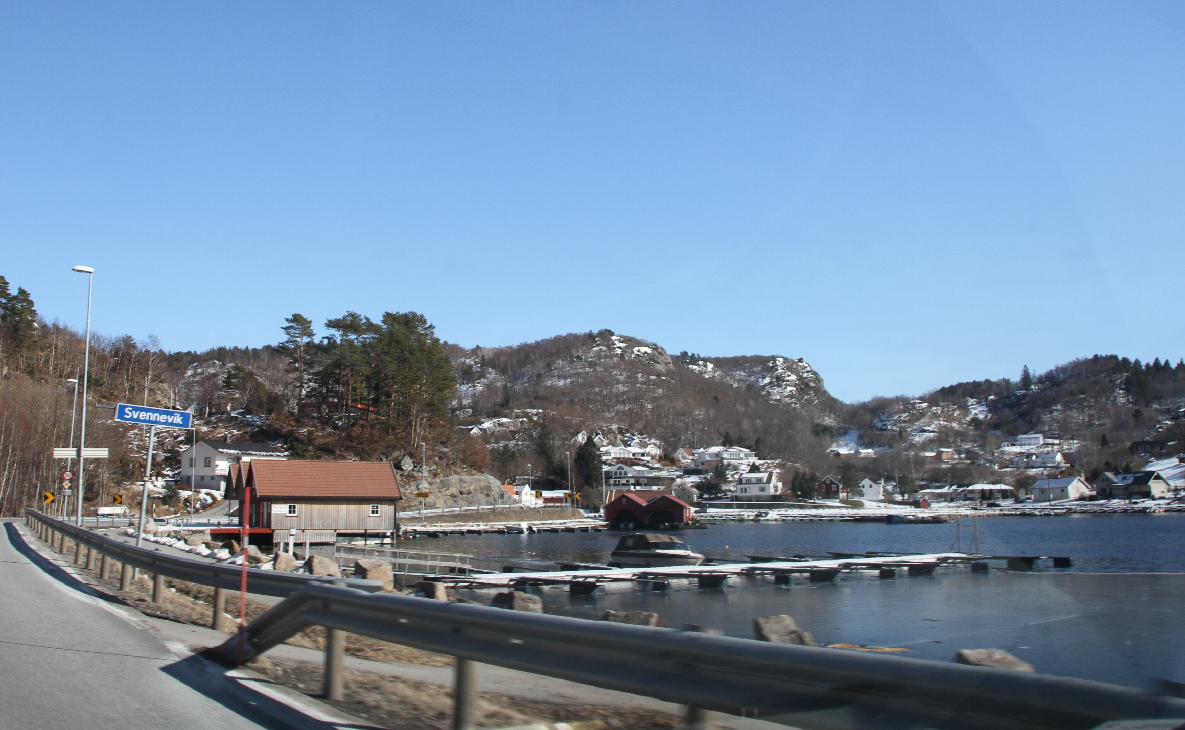 Image from the municipality of Lindesnes, just oputside Vigeland township. Vest-Agder county, south Norway.